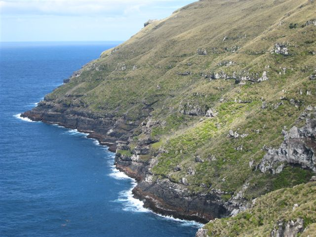 Auckland Island - looking towards Cape Lovitt, the westernmost point of New Zealand